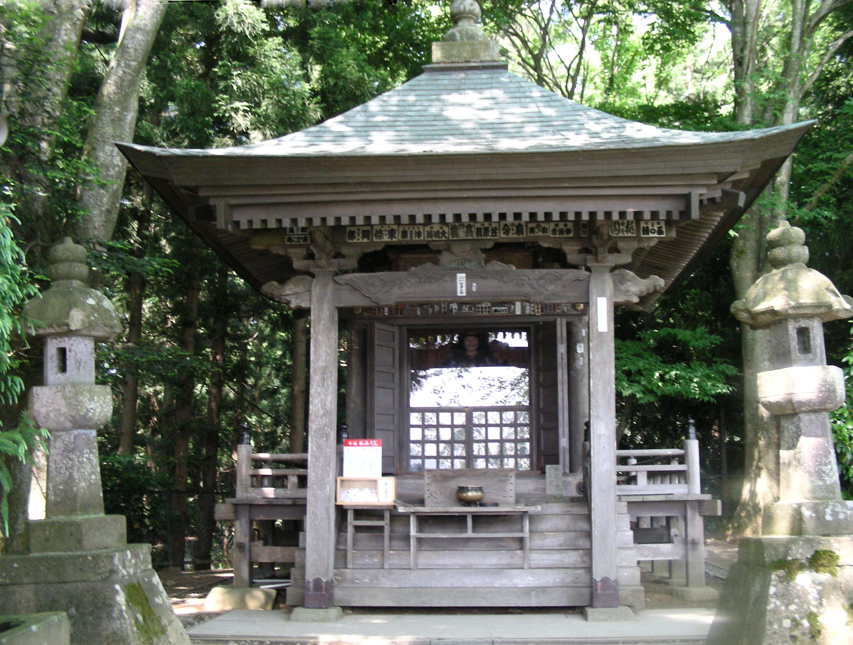 Takadachi Gikei-dō (Yoshitsune Hall) in Hiraizumi, Iwate Prefecture, Japan.